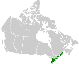 A modified version of Mixedwood_Plains.png, already in Wikimedia Commons